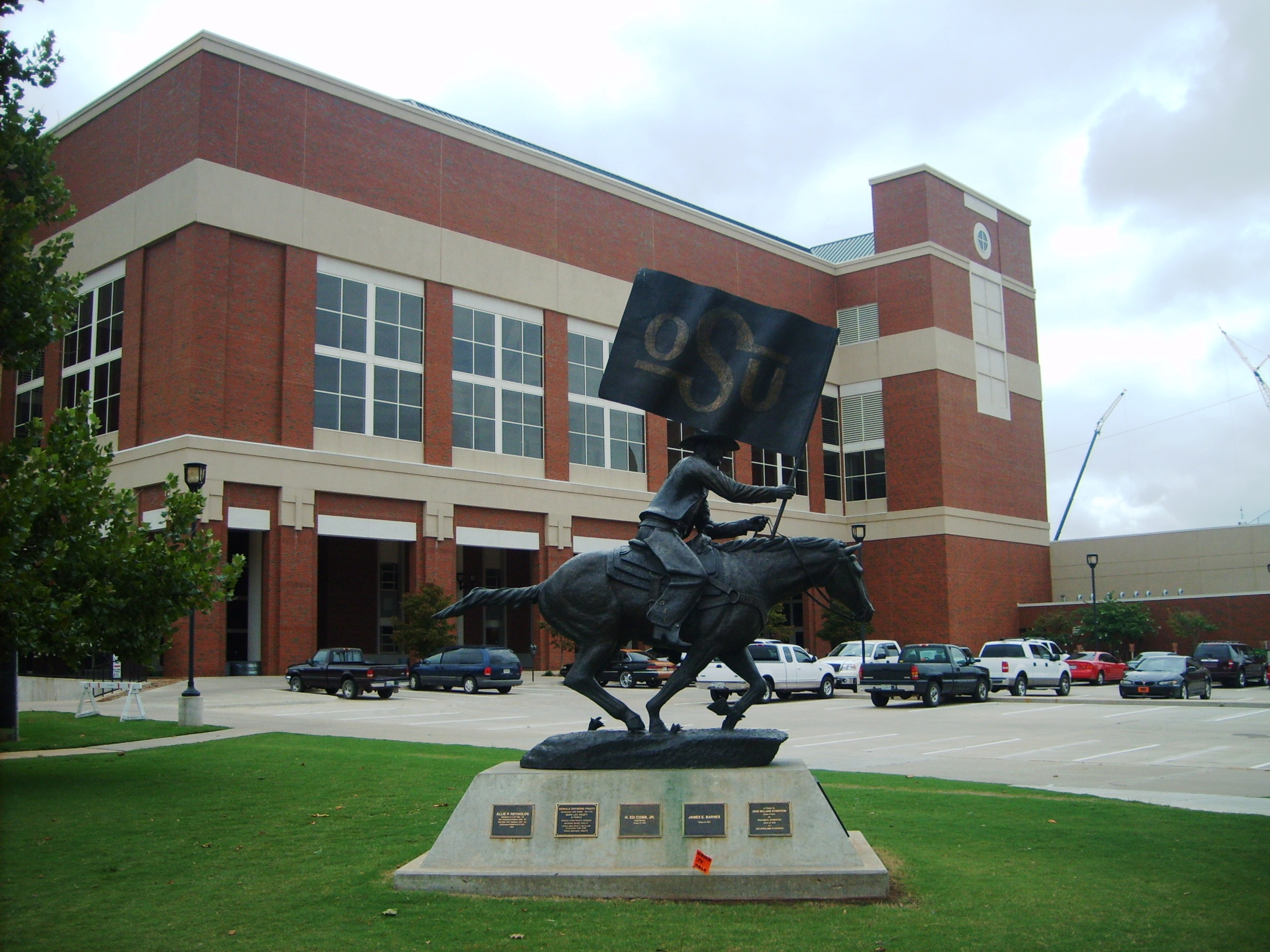 Photo of the Spirit Rider statue in front of historic Gallagher-Iba Arena at Oklahoma State University, Stillwater, Oklahoma, USA